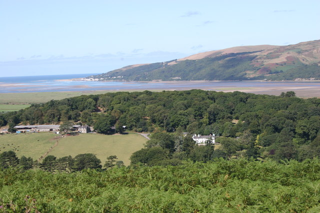 Ynys Hir The paths on the lower slopes of Foel Fawr offer wonderful views across the Dyfi estuary to the hills beyond. The white building in the woodland is Ynys Hir Hall, a renowned Country House hotel.